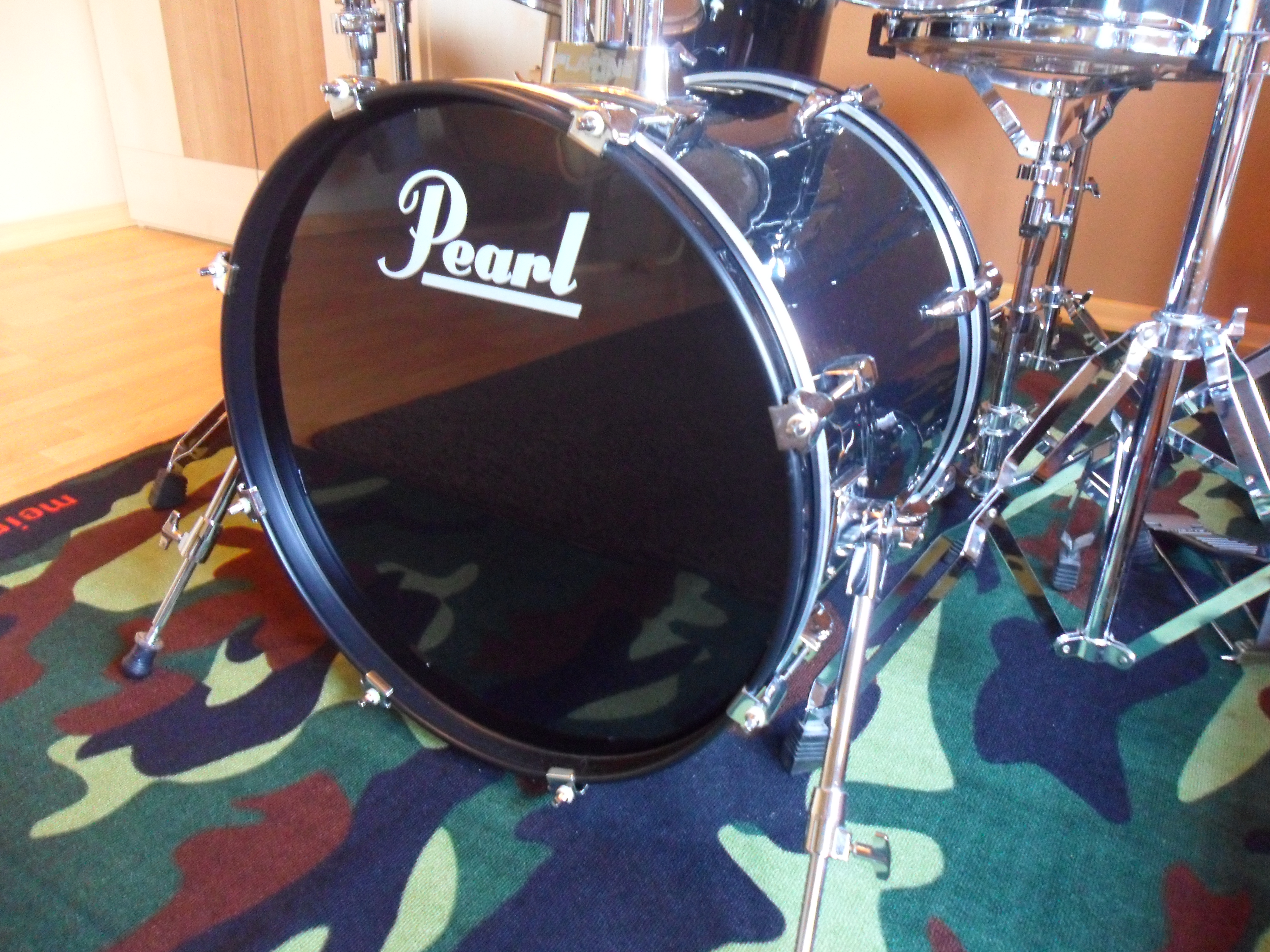 20" Bass drum